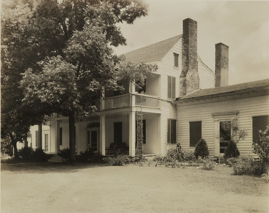 Title Mount Repose, Natchez, Adams County, Mississippi Contributor Names Johnston, Frances Benjamin, 1864-1952, photographer Created / Published 1938. Subject Headings - United States--Mississippi--Adams County--Natchez - Columns. - Porches. - Chimneys. - Wings (Building divisions). - Houses. - Mississippi--Adams County--Natchez Format Headings Photographic prints. Notes - Title from photographer's inventory. - Built by Wm. Bisland on lands granted his father, John Bisland, by Spanish Crown in 1782. House and lands still in possession of the descendants of the original owners. - From verso: Repose in name and scene. Mount Repose is the name of this establishment in the Natchez district, and reposeful is the scene as well. The columns, six above and six below, are unrelieved in their simplicity, and two side wings can be seen to the left and right. The strong lines of the heavy chimneys provide a further interesting touch. - Building/structure dates: 1824. - Corresponding Carnegie Survey of the Architecture of the South neg. no. 1063. Library has no record of having this neg. - Related names: Dr. Dunbar Shields; Mrs. A.R. Baldwin. - Gift; Anne E. Peterson; 2011; (DLC/PP-2011:206) - Forms part of: Carnegie Survey of the Architecture of the South (Library of Congress). Medium 1 photographic print. Call Number/Physical Location LOT 11838-1 [item] [P&P] Repository Library of Congress Prints and Photographs Division Washington, D.C. 20540 USA Digital Id ppmsca 32373 //hdl.loc.gov/loc.pnp/ppmsca.32373 Control Number csas201207201 Reproduction Number LC-DIG-ppmsca-32373 (digital file from photograph) Rights Advisory No known restrictions on publication. Online Format image Description 1 photographic print.